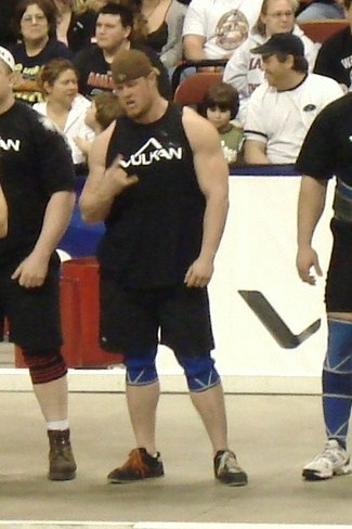 Marshall White.